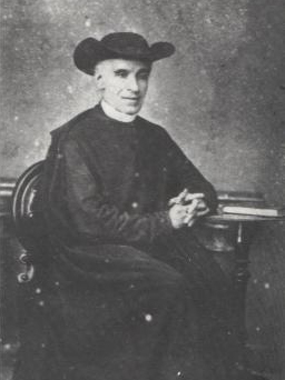 The Rt. Rev. John Baptist Nosardy Zino, Vicar General Apostolic of Gibraltar appointed 25 January 1816